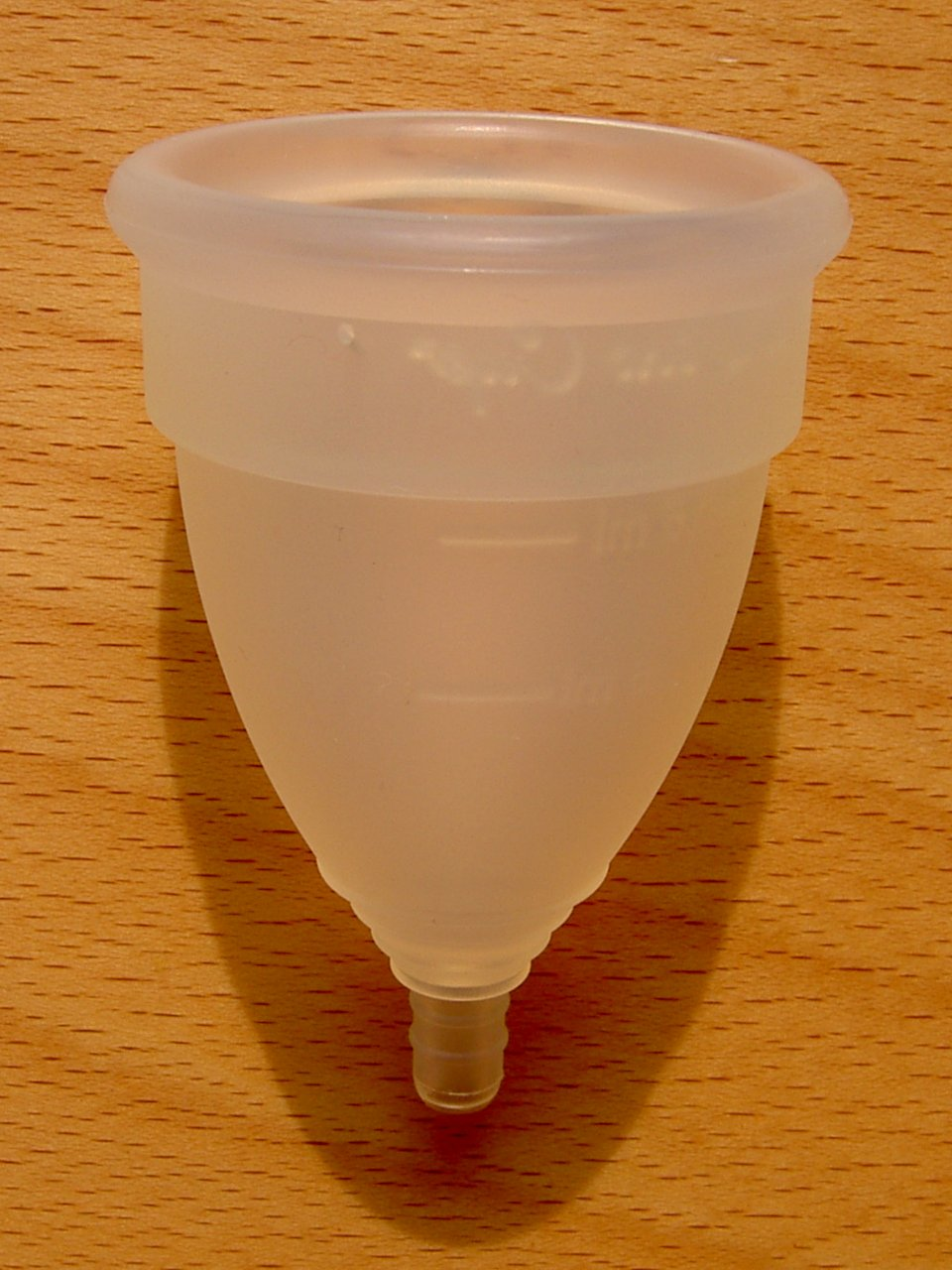 The DivaCup, a silicone menstrual cup. (Photograph by jip_26)